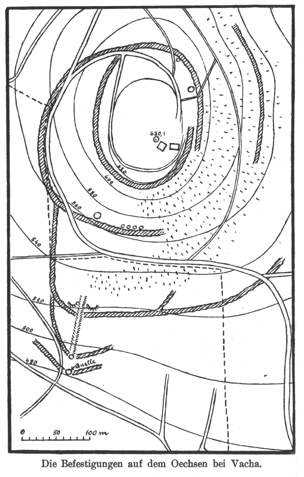 A map of the walls at mount Oechsen.